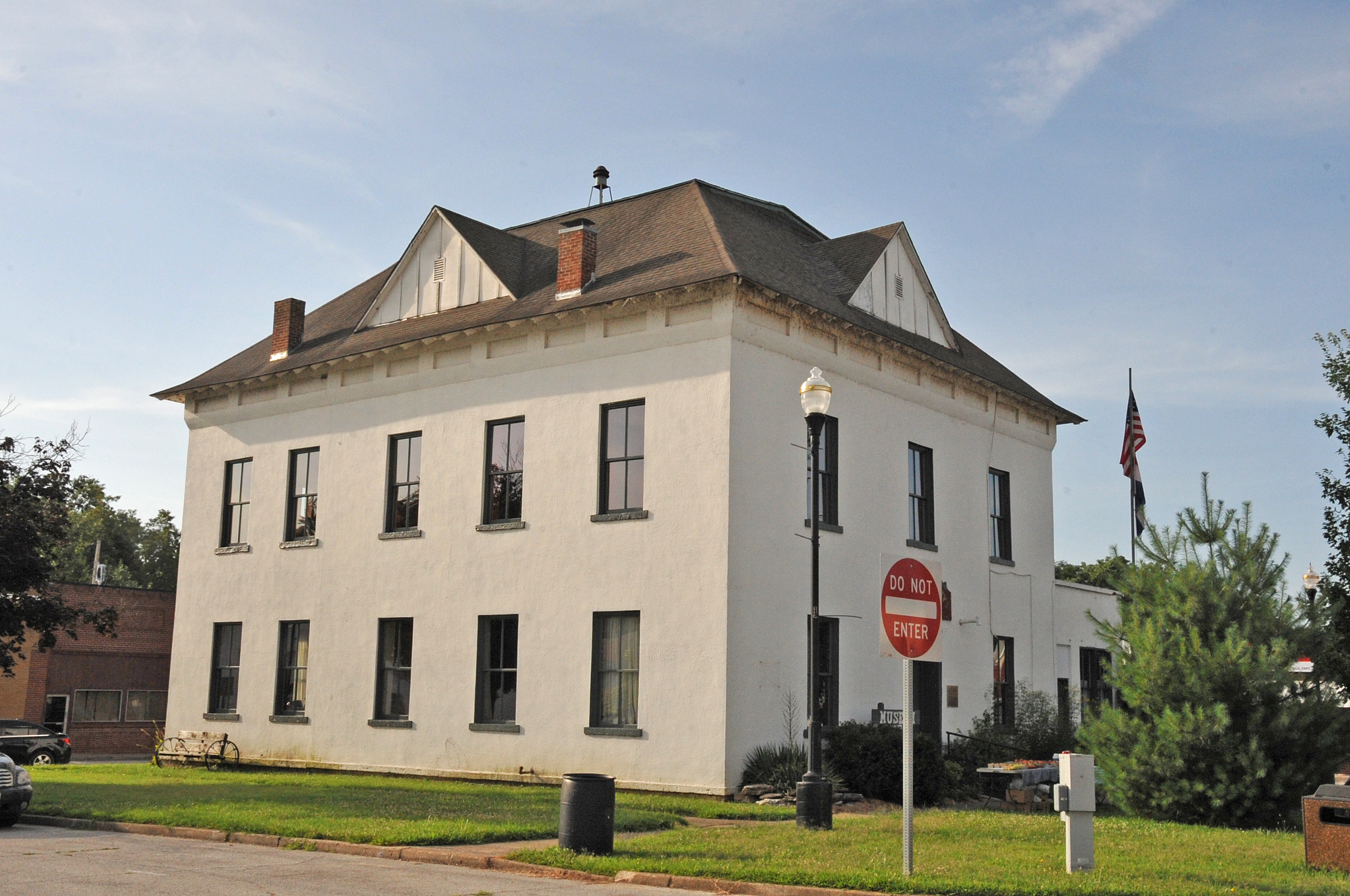 CONSTRUCTED AS A FOURSQUARE IN 1870-1871. IT IS NOW A MUSEUM BUT WAS USED IN A MOVIE ABOUT JESSE JAMES